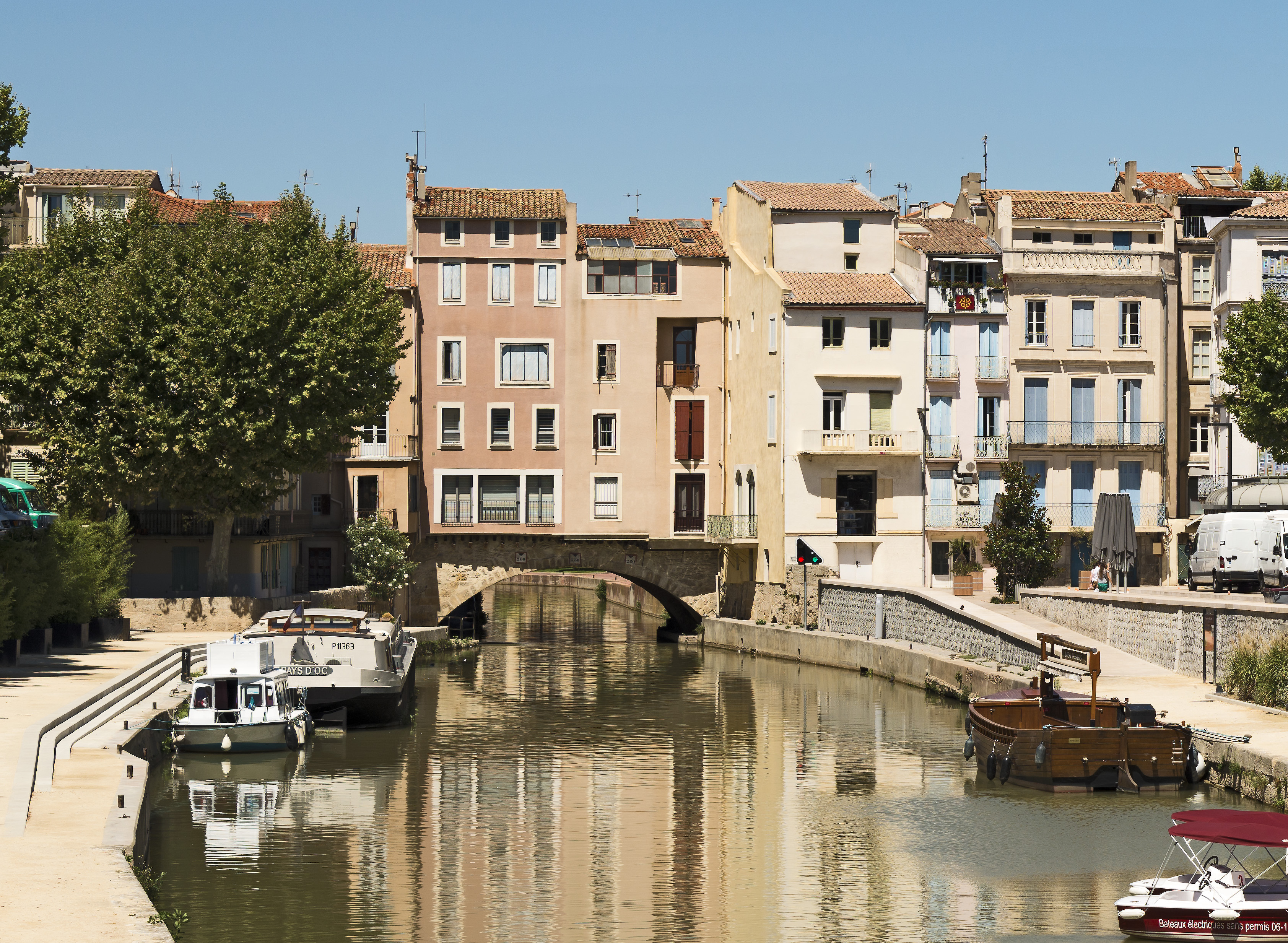 The Pont des Marchands ("Merchant's Bridge") is an old bridge across the Canal de la Robine in Narbonne, Aude department, Occitanie, France.